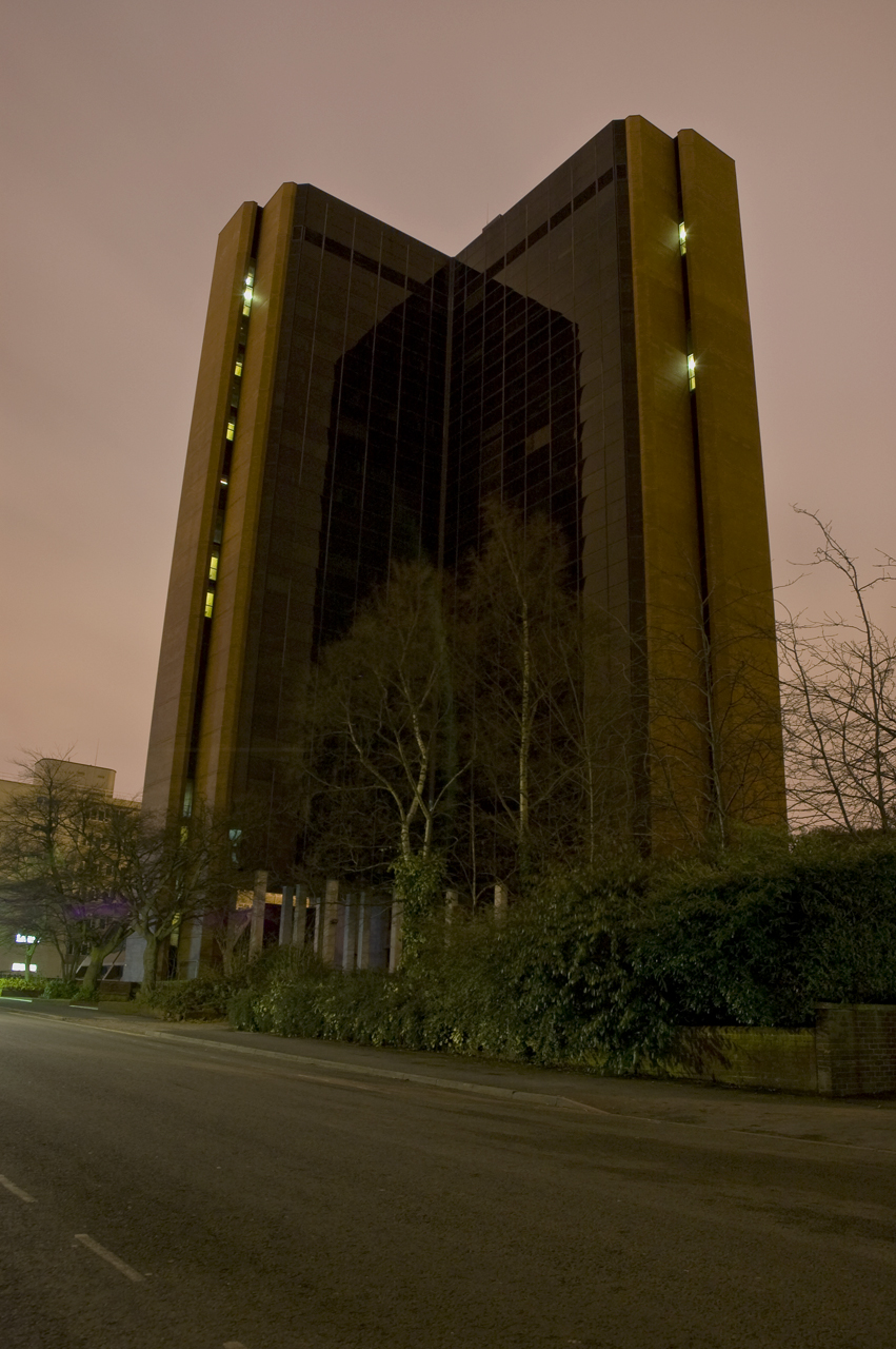 Five Ways Tower, Birmingham, UK